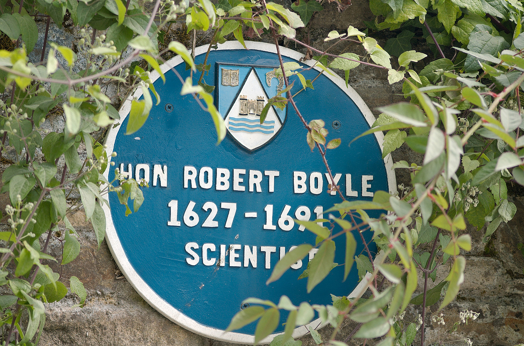 Plate at Lismore Castle, the birthplace of Robert Boyle